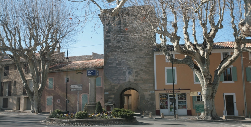 entrance gate in the village of Pernes-les-Fontaines, (Vaucluse) France.